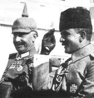 Wilhlem II and Enver Pasha in 1917, image was published on Axis forum